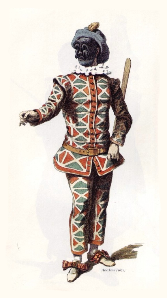 Harlequin year 1671